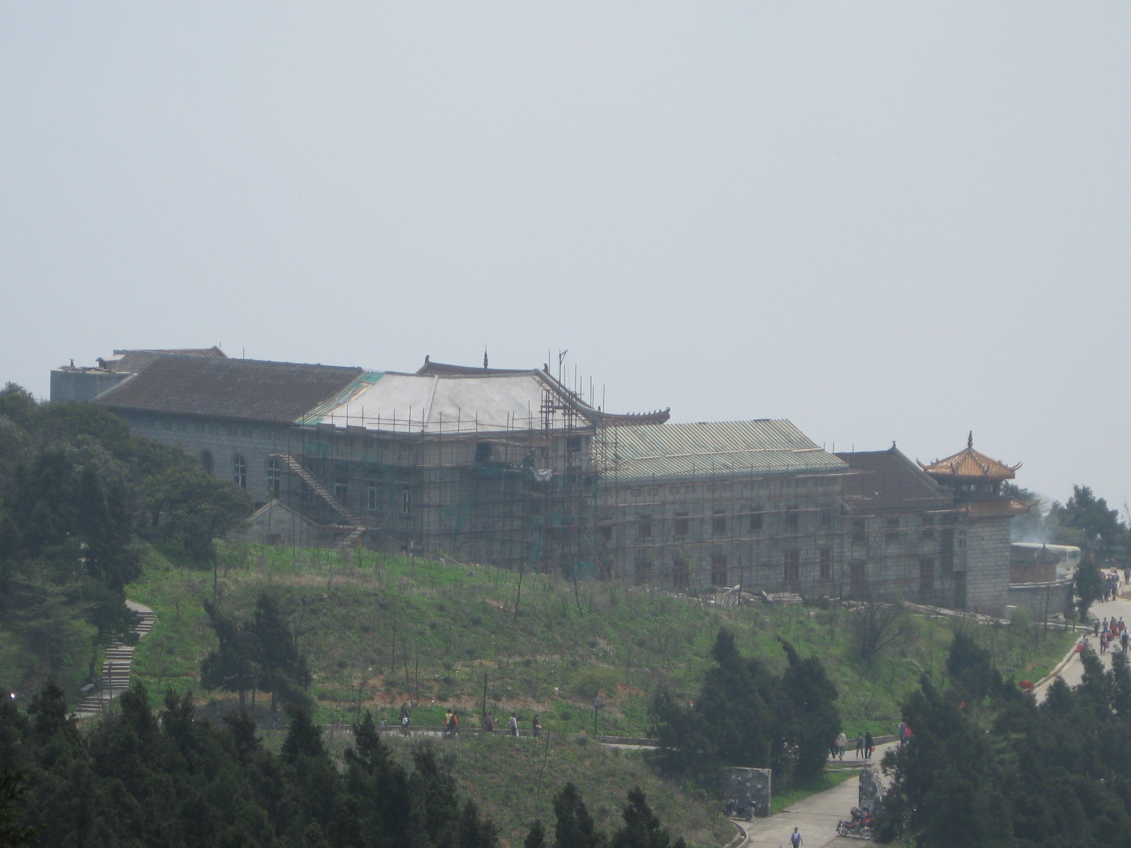 Shangfeng Temple overview